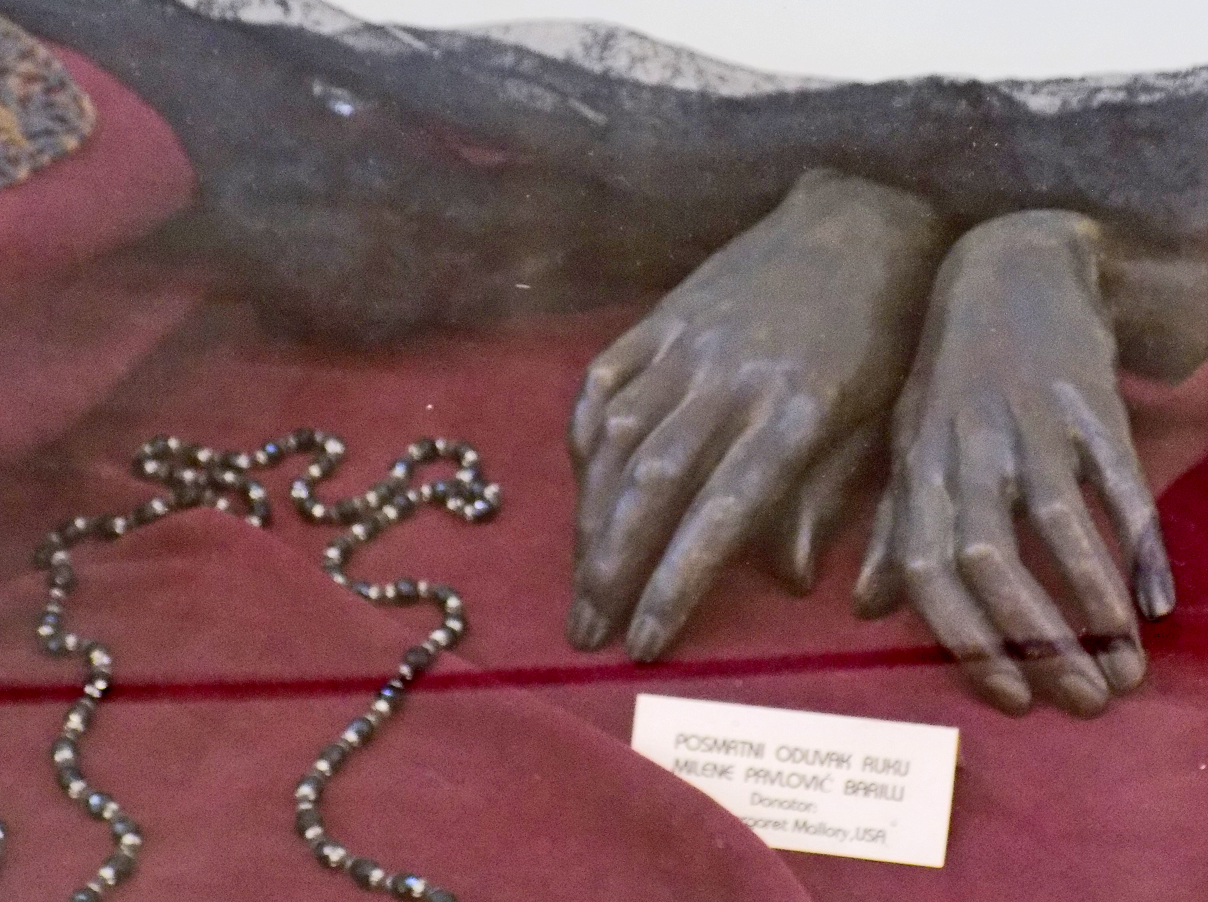 Milena Pavlović-Barili Gallery (Milena's home) - Posthumous casting of Milena's hands (donor Margaret Mallory, USA)